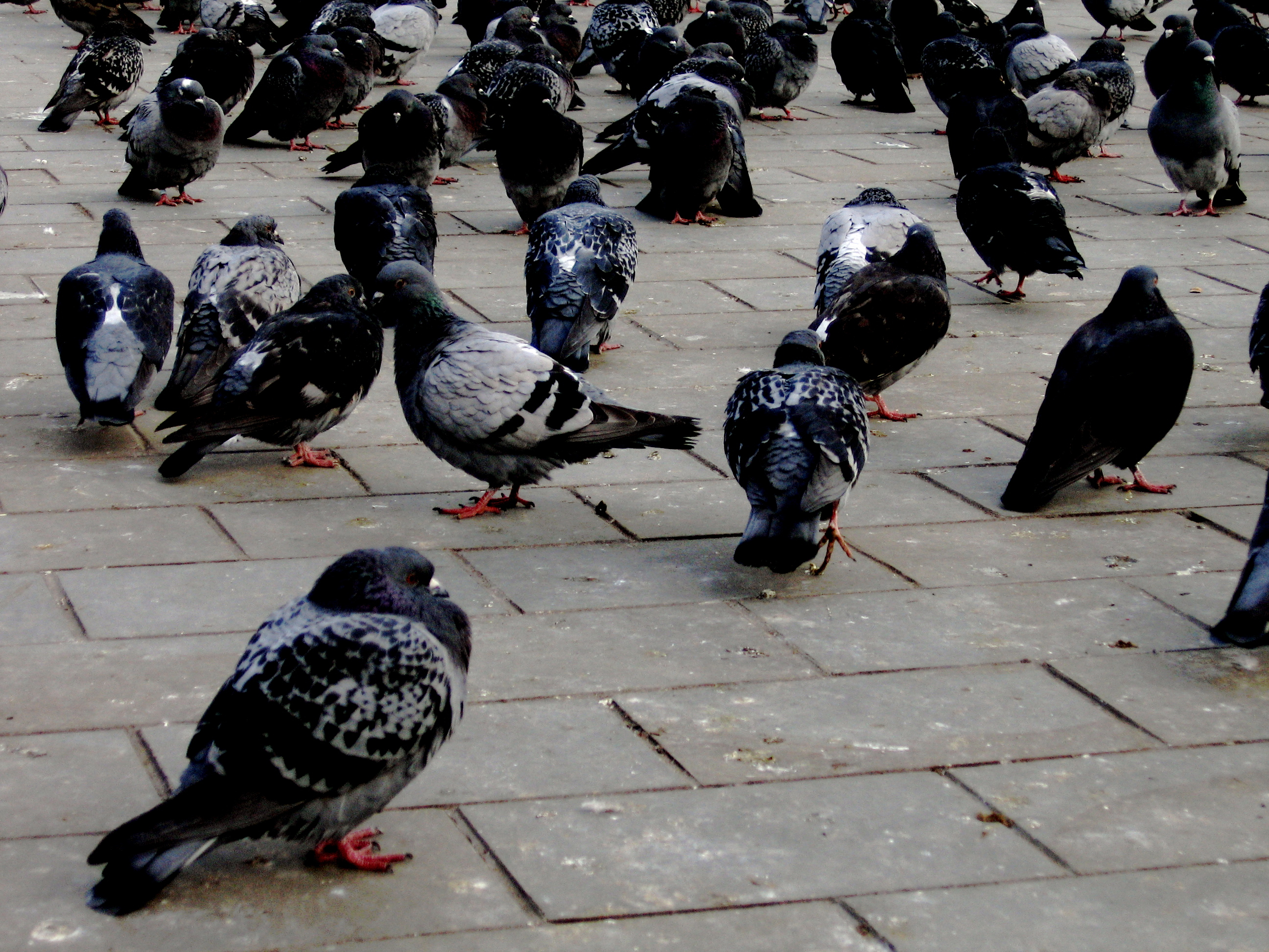 trafalgar square, pigeon, city of westminster, chordata, animalia, aves, columbidae, columbiformes